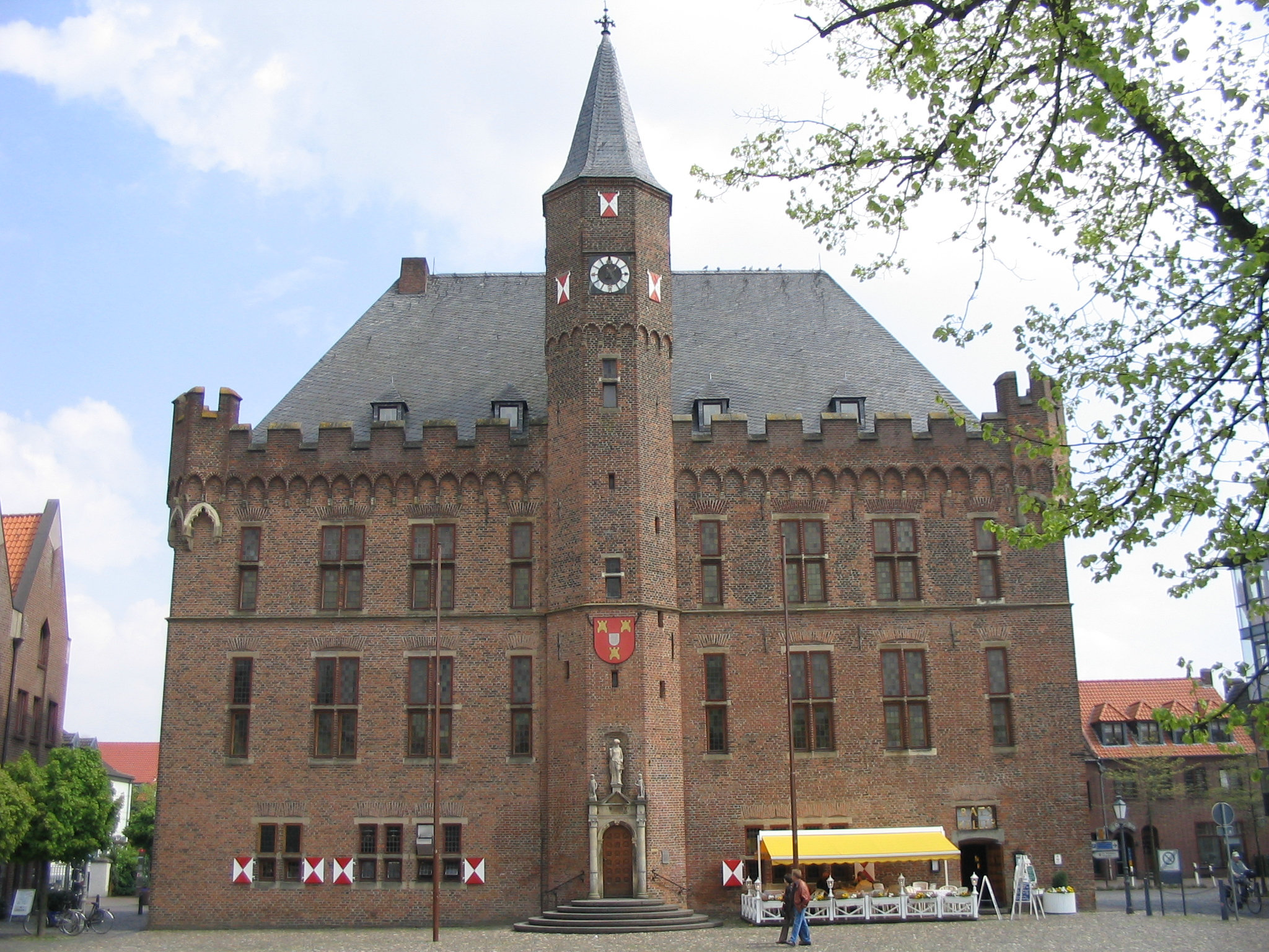 The city hall of Kalkar